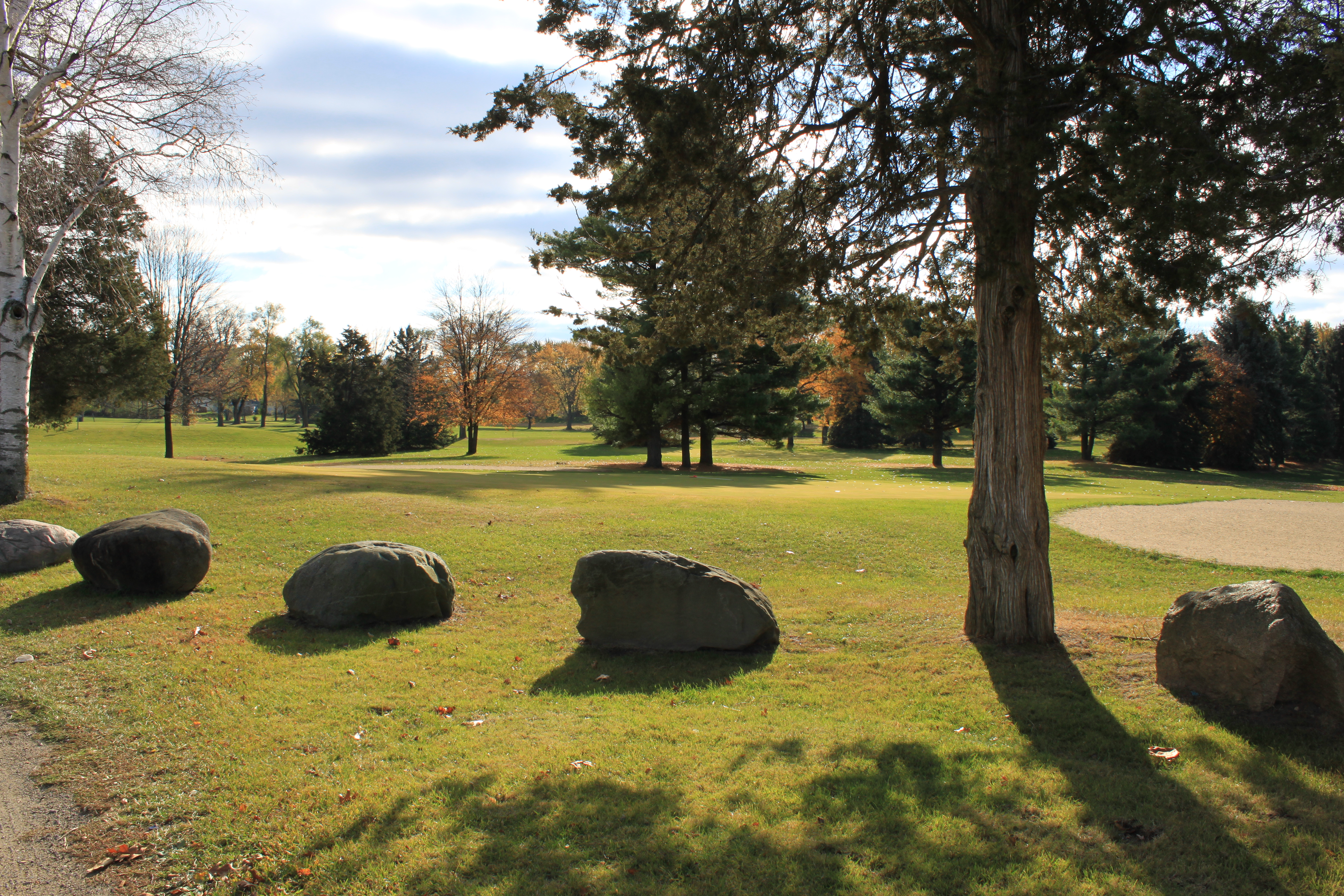 Clark Lake Golf Course, 5535 Wesch Road Brooklyn (Columbia Township), Michigan